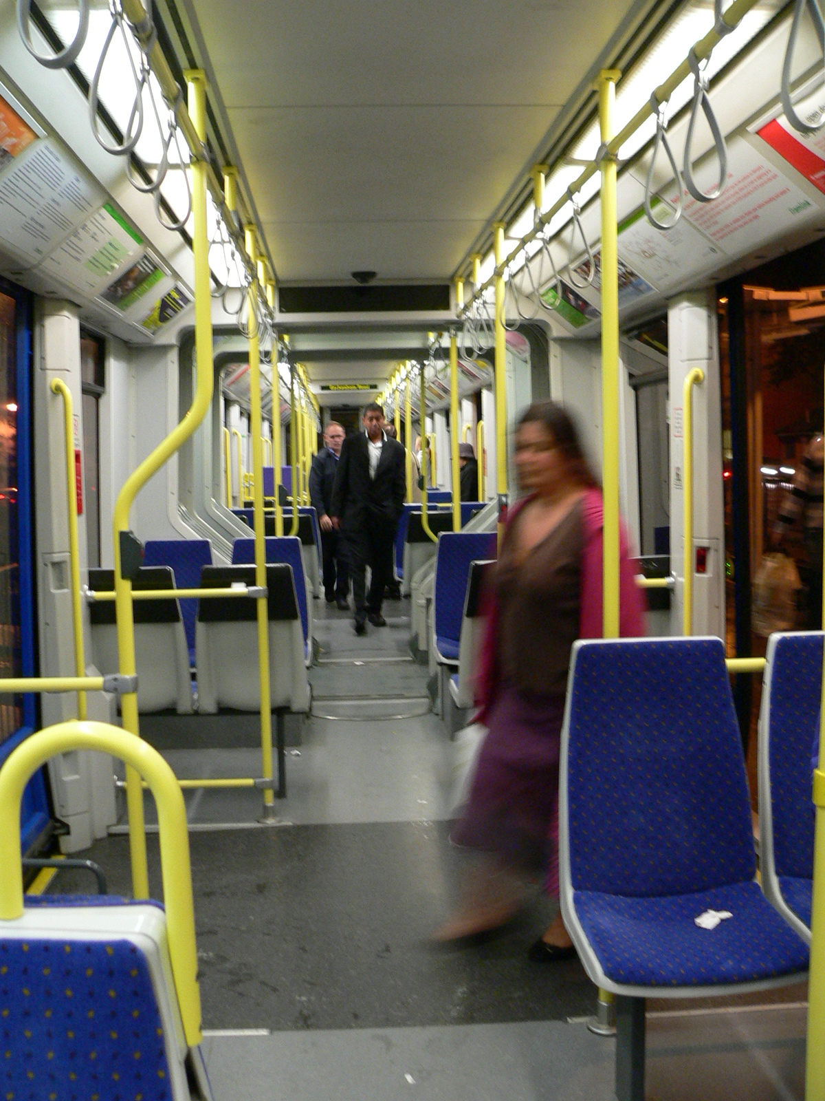 The interior of a Tramlink tram at the route 2 terminus at Beckenham Junction station on the evening of 24 October 2005.